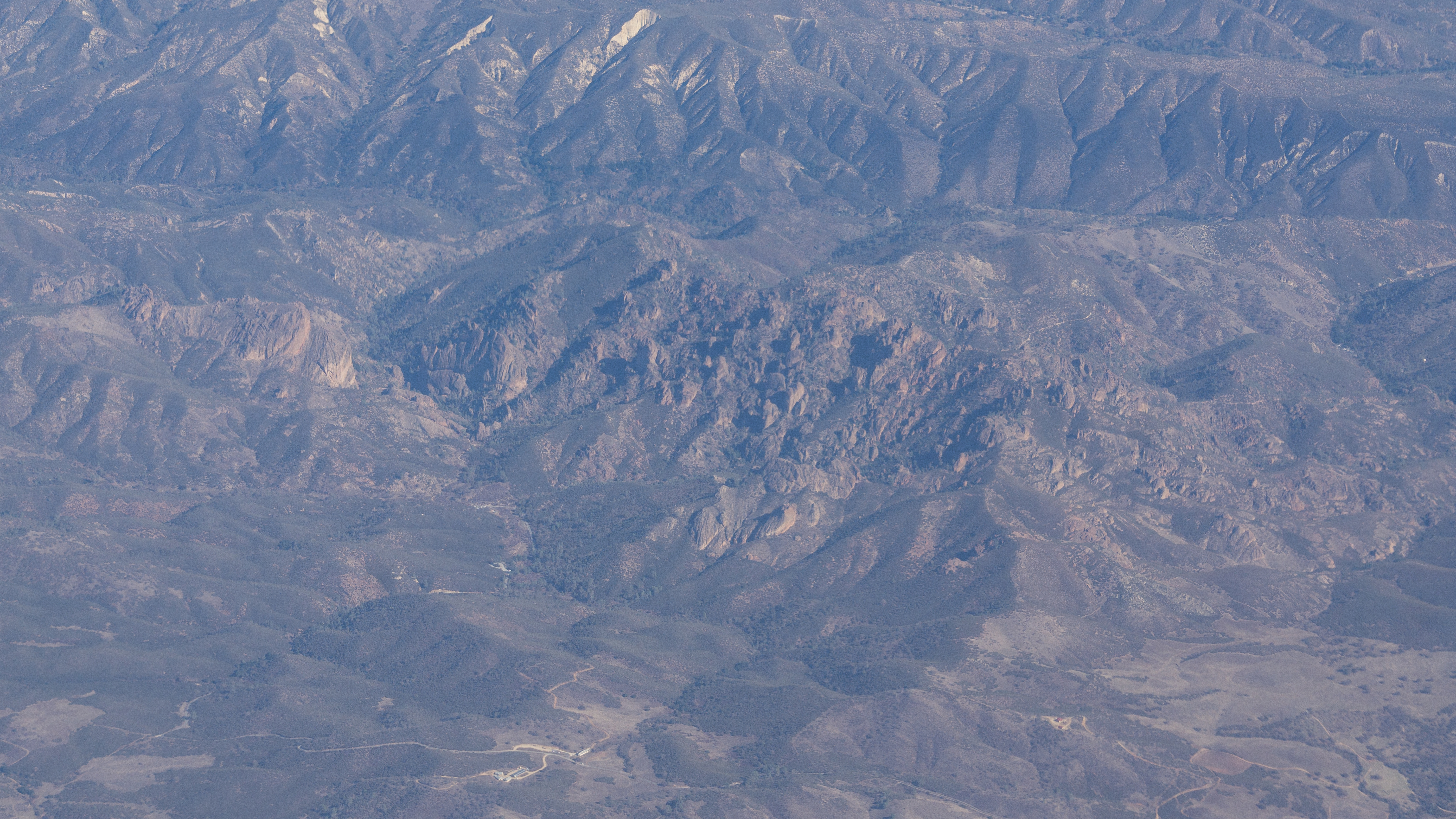 Aerial view of Pinnacles National Park, looking from the northwest toward the southeast. Note the various winding trails ascending the main complex of rock formations. Annotations: At center bottom lies the Pinnacles NP West Entrance, which is located along the western segment of California State Route 146. The terminus of the western segment of CA 146 is visible at center left as a pair of parking lots just above and slightly toward the left of the West Entrance. The terminus of the eastern segment of CA 146 is located just to the right of the large pointed rock formation in the wooded valley just above center. The parking lot and buildings at the Bear Gulch Reservoir Trailhead are visible at the extreme right of the image.